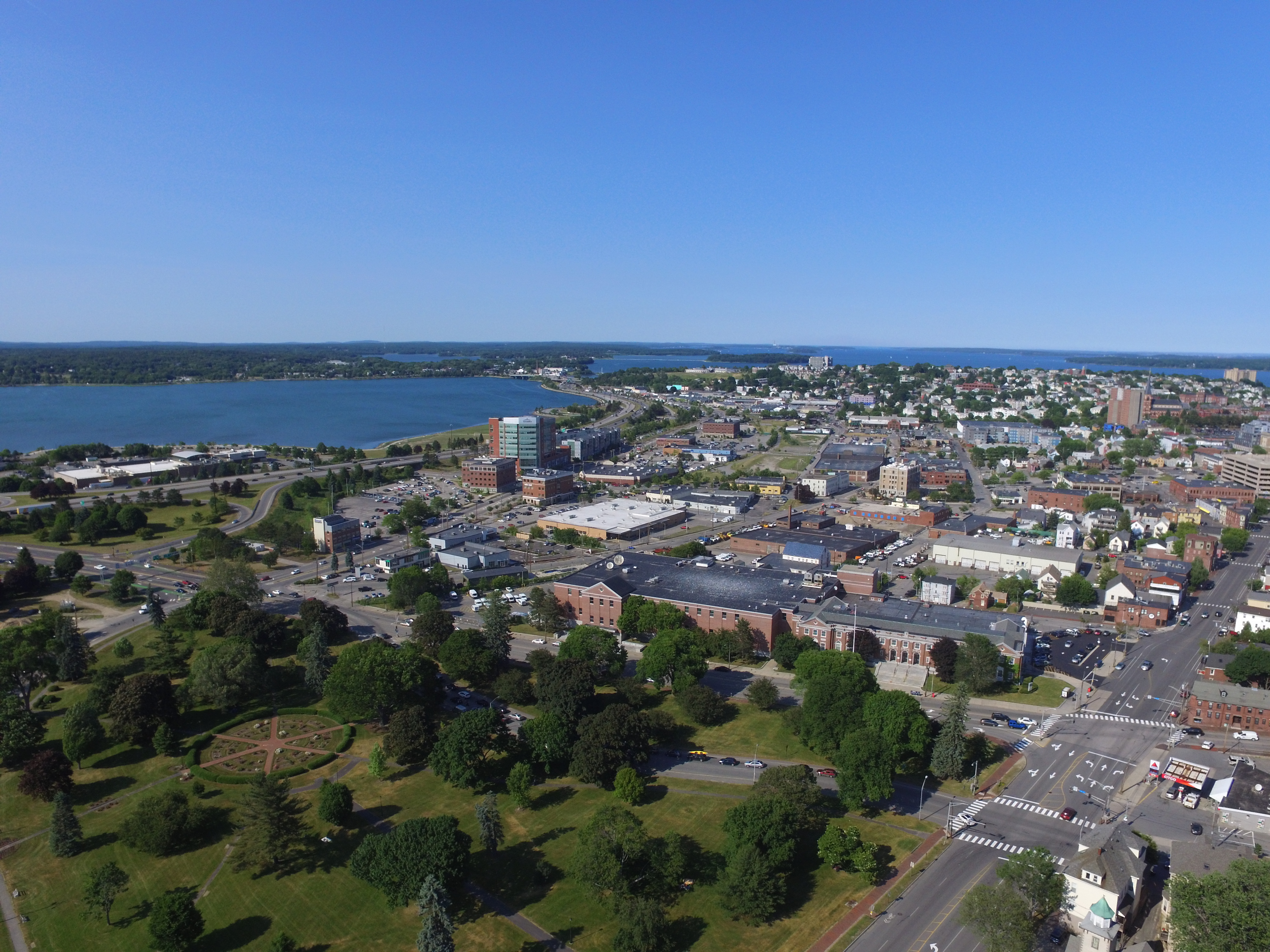 Aerial drone photograph of Bayside, taken above Park Avenue and including the Deering Oaks Park flower garden